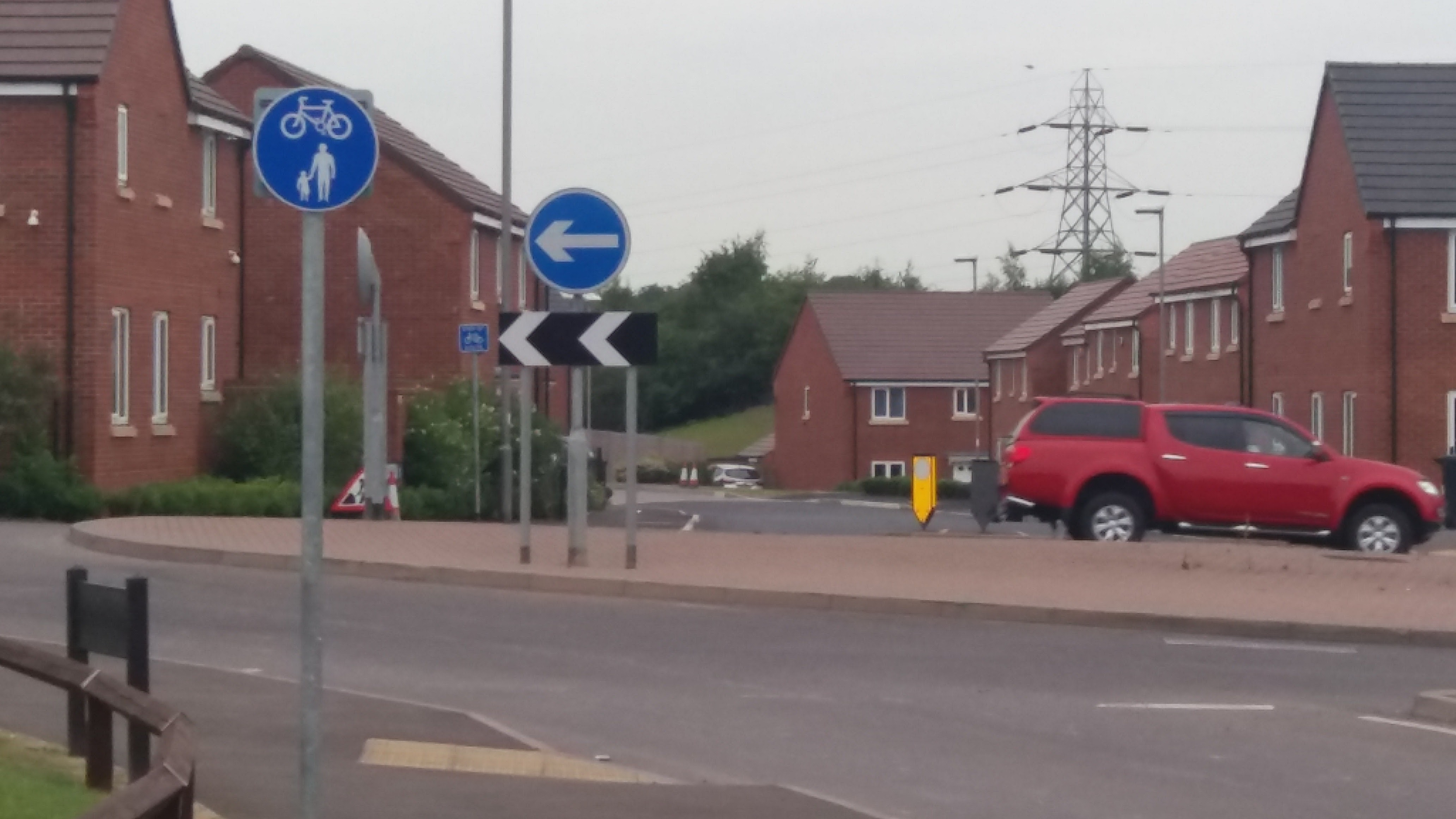 My own.